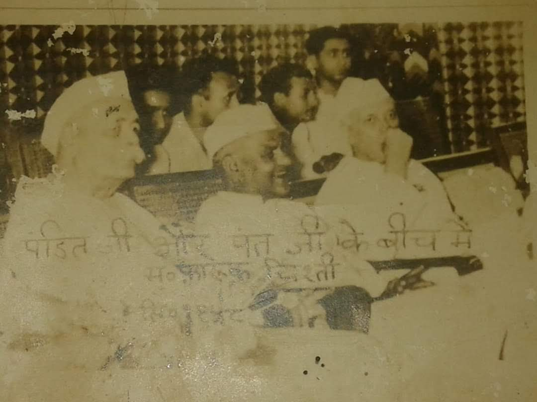 Mr Mohammad Farooq Chishti (M) with Jawaharlal Nehru (R) and Govind Ballabh Pant (L) at Chishti House Deoria